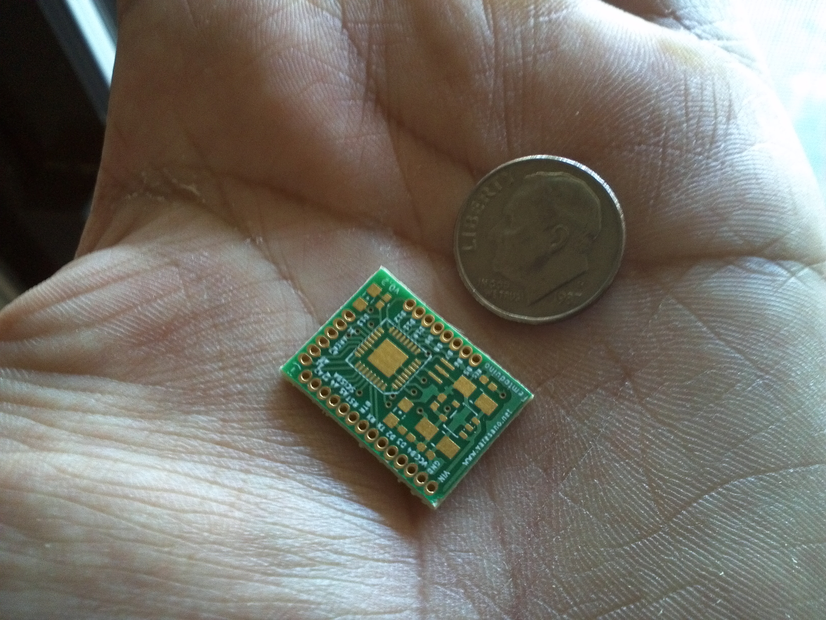 The bare Femtoduino PCB compared to a US Dime.